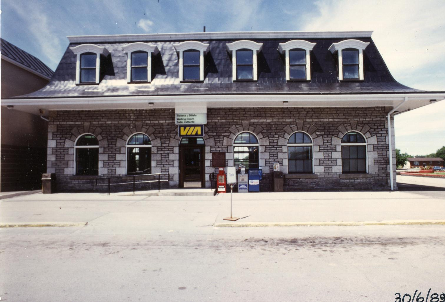 A photograph of the Via Rail Station's front entrance in Belleville, Ontario. This building was originally constructed by the Canadian National Railway, and used by the Grand Trunk Railway, in 1856.